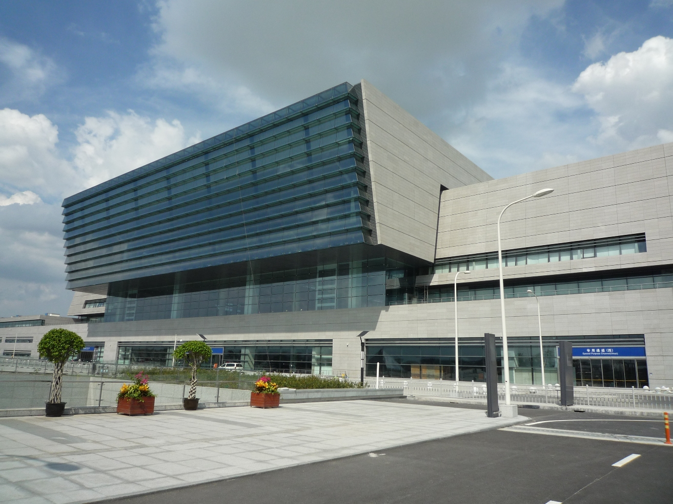 Shanghai Hongqiao Railway Station west side